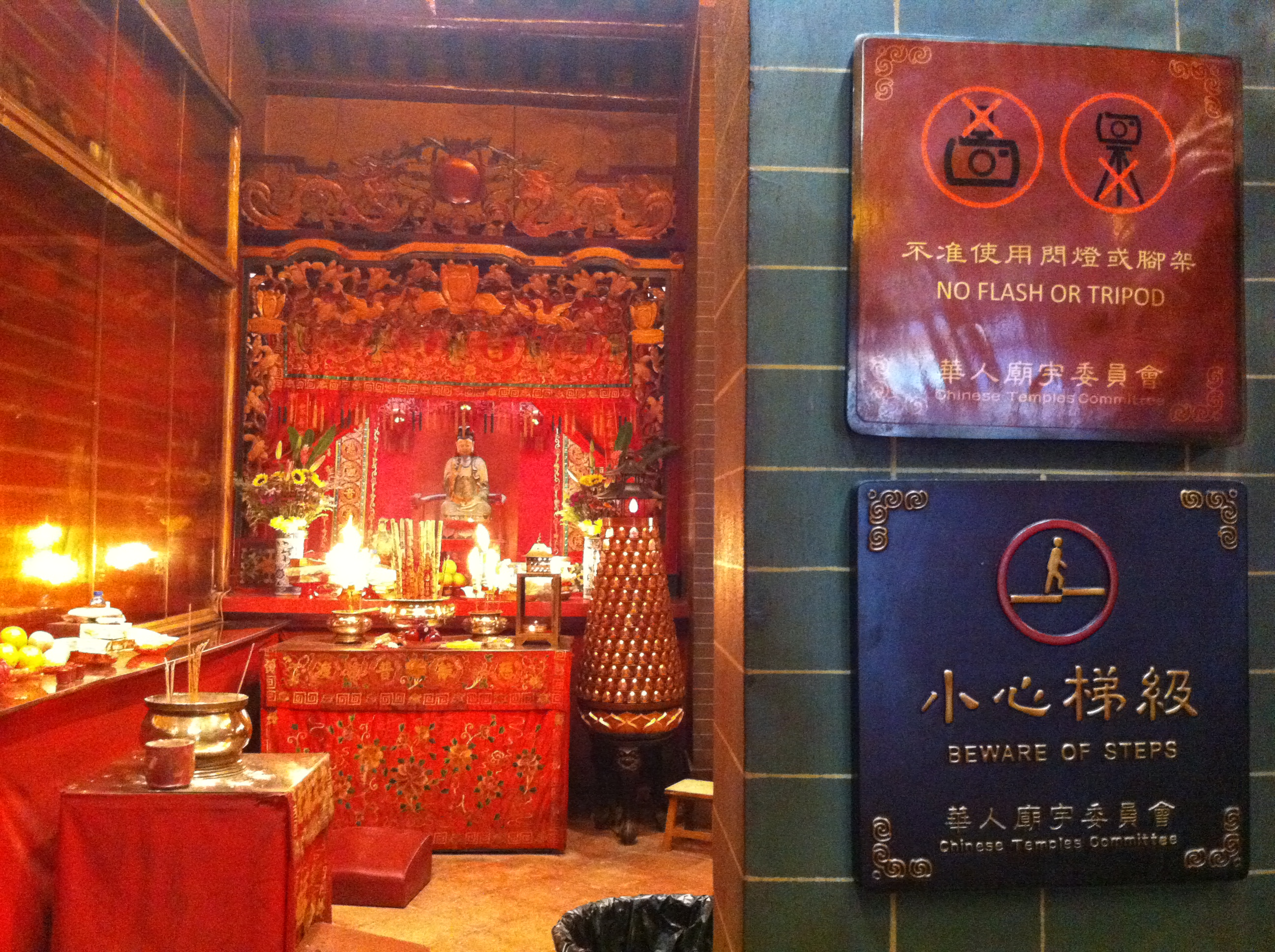 九龍深水埗關帝廟, Mo Tai Temple, Hai Tan Street, Sham Shui Po, Hong Kong